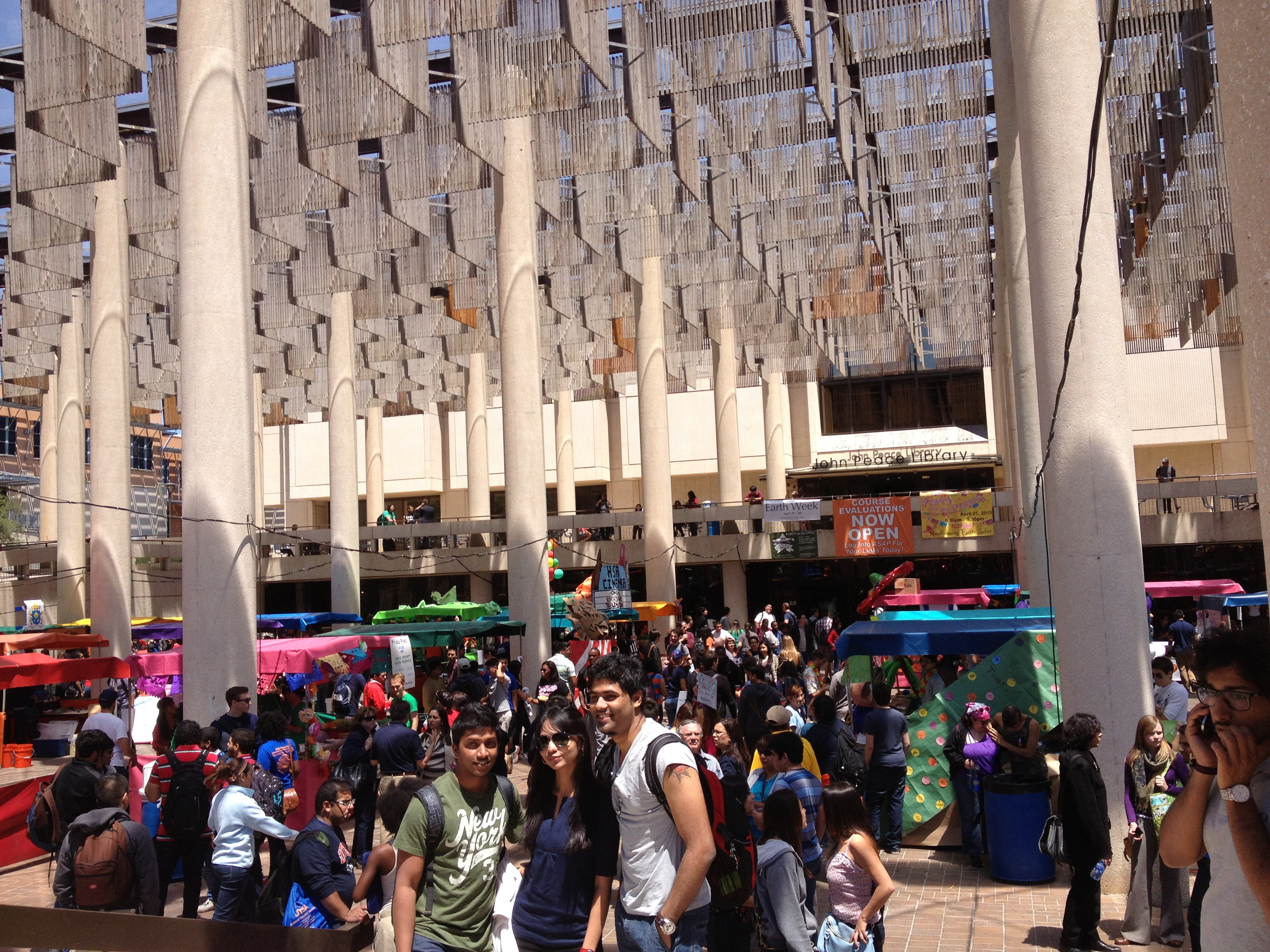 The Sombrilla during the 2013 Fiesta UTSA celebrations